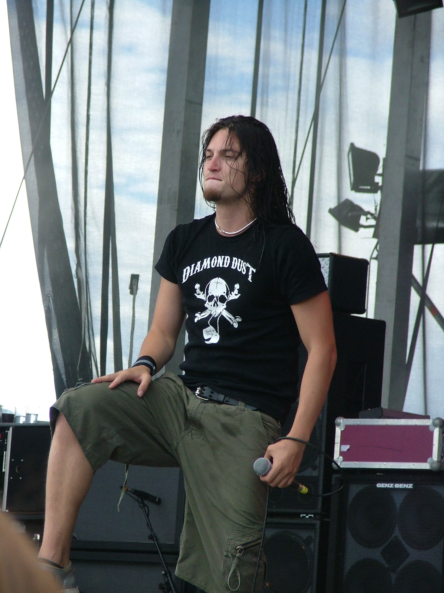 French metal band Dagoba at the Summer Breeze in Dinkelsbühl